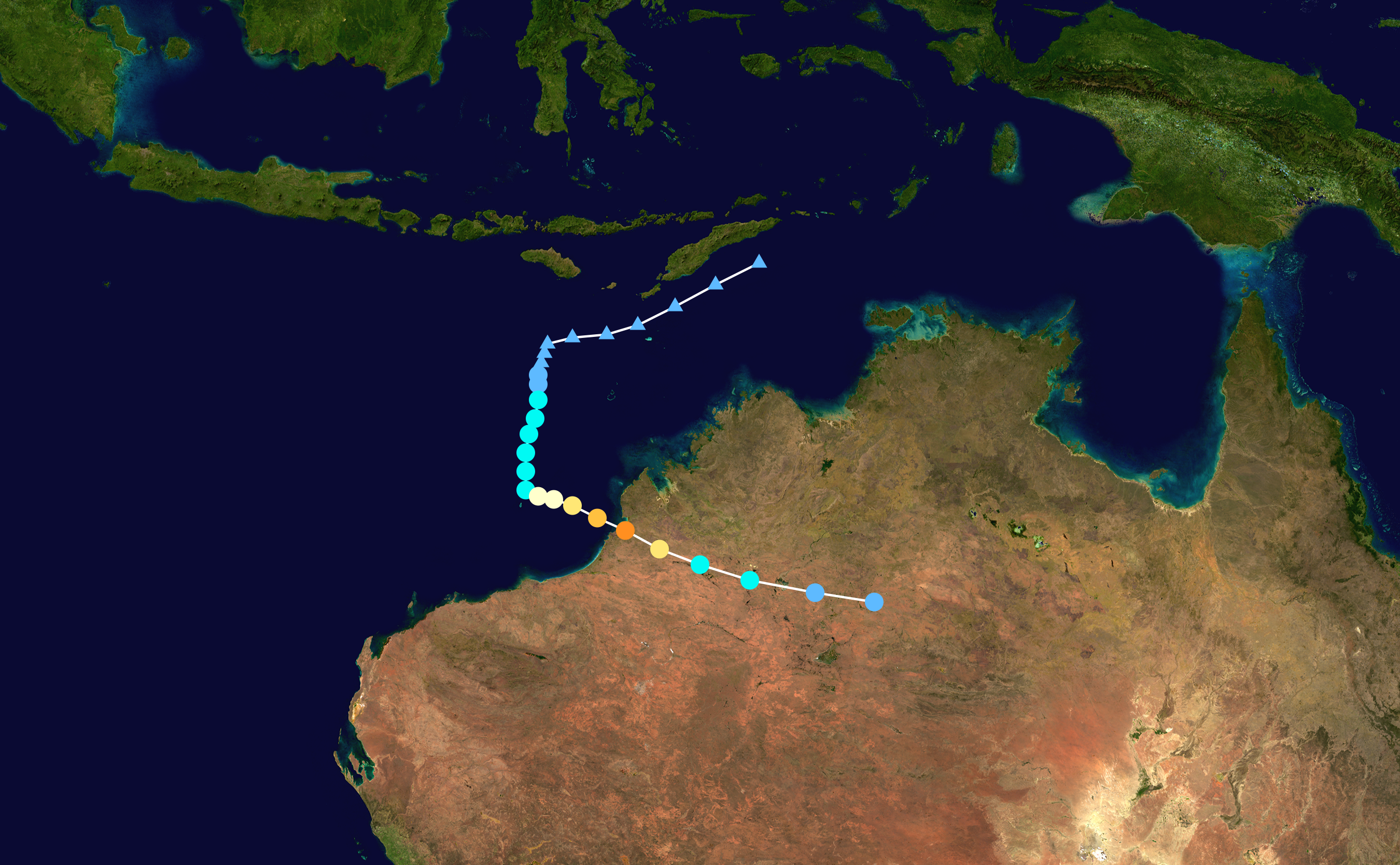 Track map of Severe Tropical Cyclone Rosita of the 1999-00 Australian region cyclone season. The points show the location of the storm at 6-hour intervals. The colour represents the storm's maximum sustained wind speeds as classified in the Saffir–Simpson scale (see below), and the shape of the data points represent the nature of the storm, according to the legend below. Saffir–Simpson scale Tropical depression≤38 mph≤62 km/h Category 3111–129 mph178–208 km/h Tropical storm39–73 mph63–118 km/h Category 4130–156 mph209–251 km/h Category 174–95 mph119–153 km/h Category 5≥157 mph≥252 km/h Category 296–110 mph154–177 km/h Unknown Storm type Tropical cyclone Subtropical cyclone Extratropical cyclone / Remnant low / Tropical disturbance